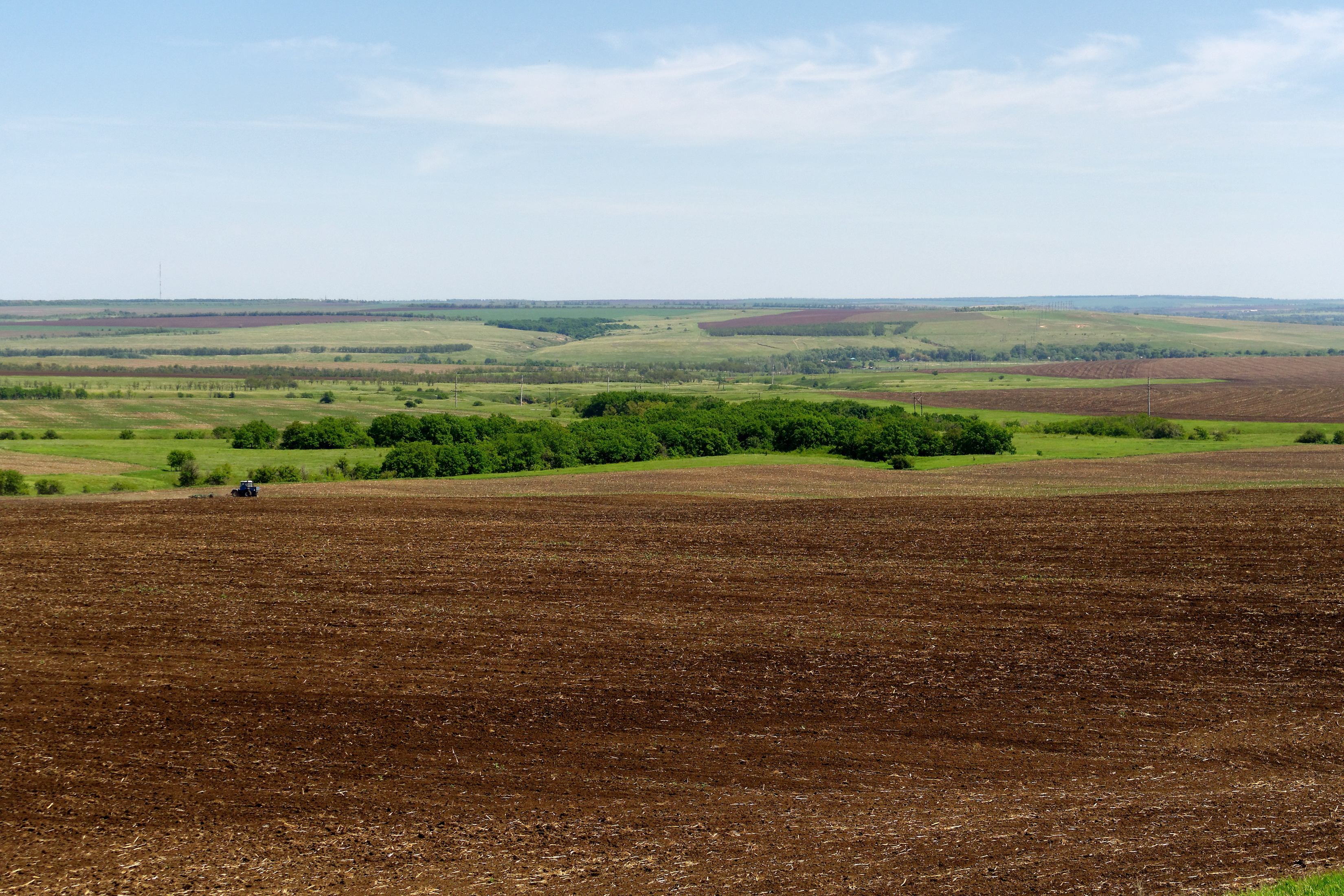 Rostov Oblast